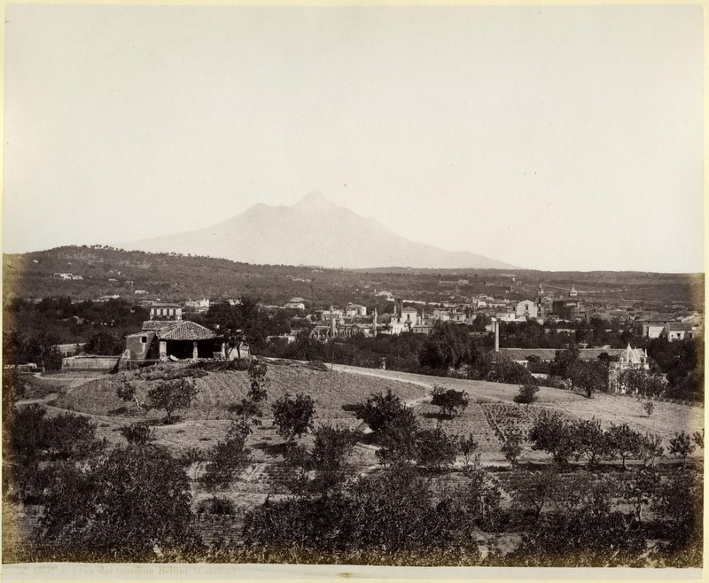 Giorgio Sommer (1834-1914), Catania and Mount Etna (N° 1375 - L' Etna dal Giardino Bellini (Catania)).